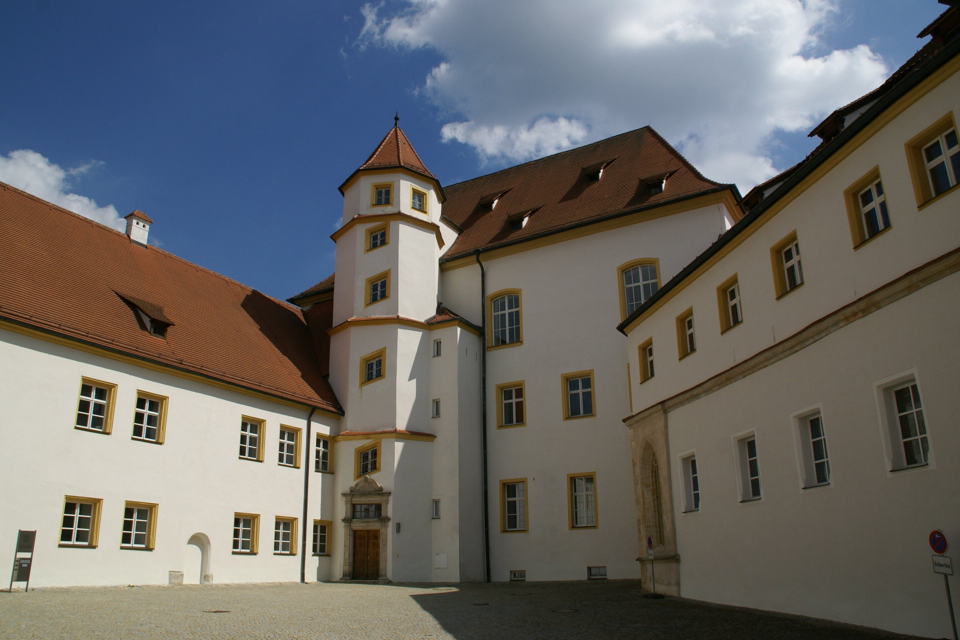 Inner yard of the caste in Sulzbach-Rosenberg (Germany)